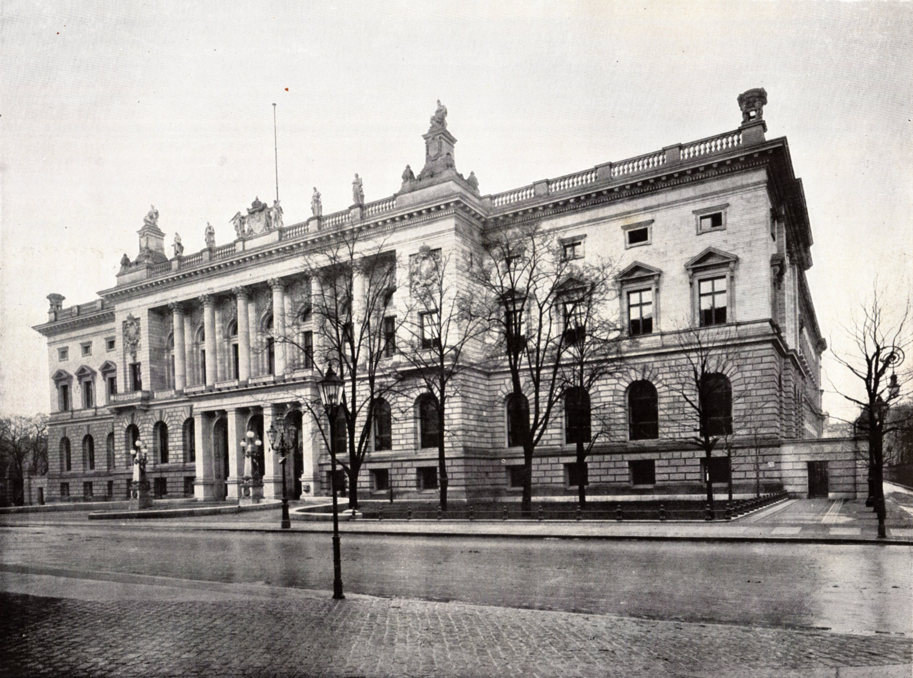 Berlin, Abgeordnetenhaus around 1900